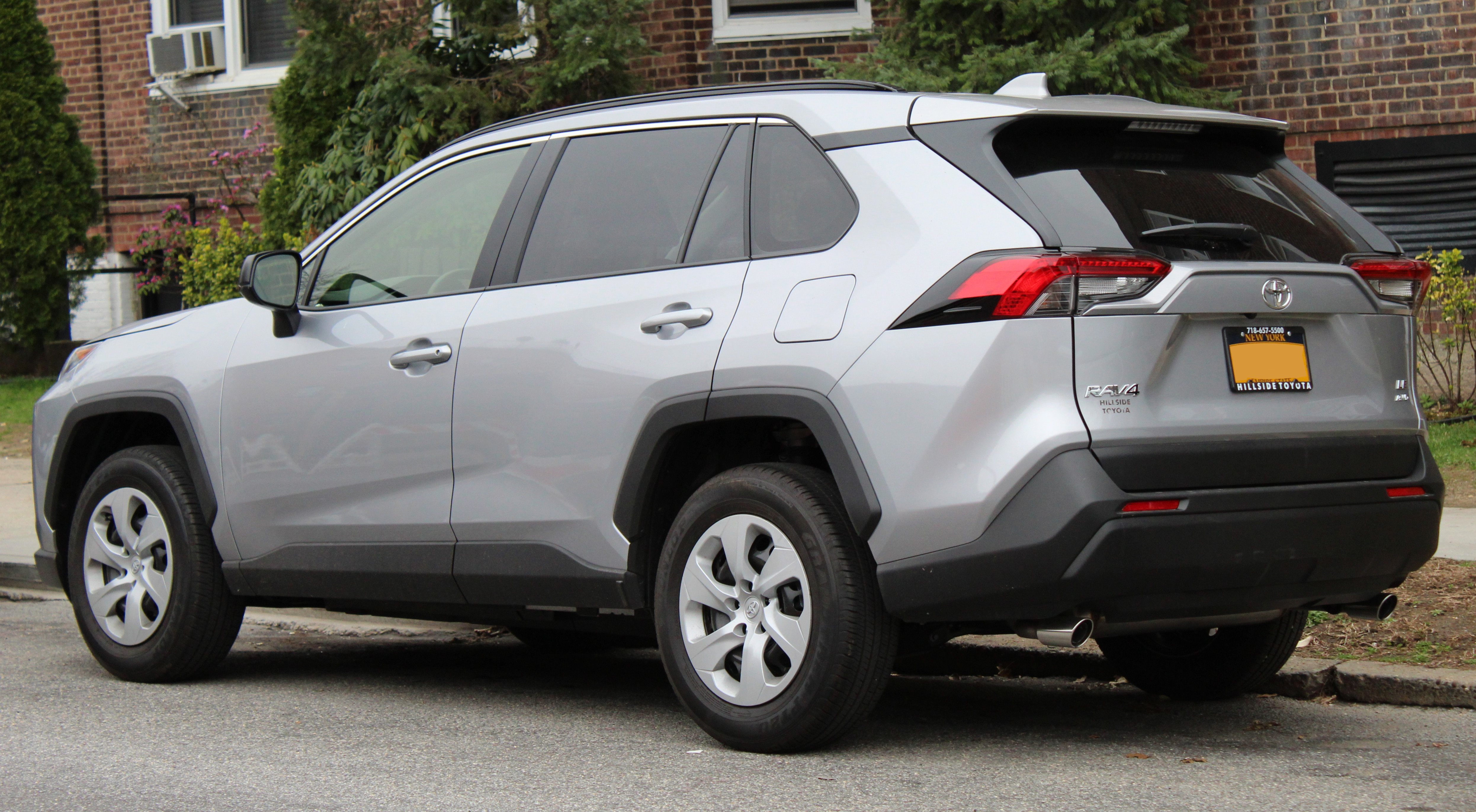 A 2019 Toyota RAV4 photographed in Kew Gardens Hills, Queens, New York, USA